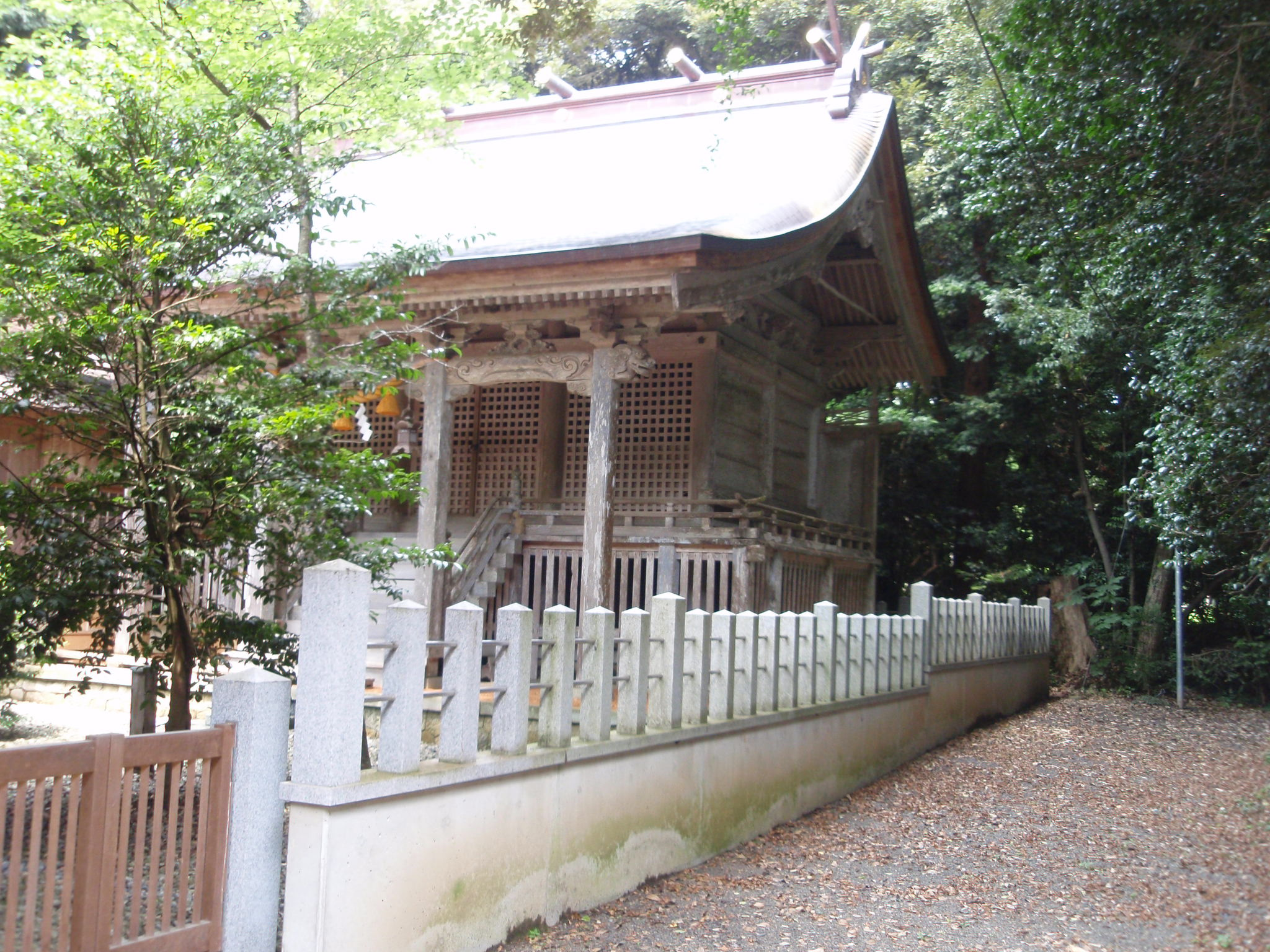 The honden (main building) of Suzu Shrine